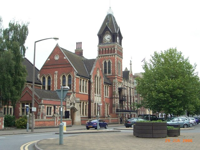 Town Hall, near to Burton Upon Trent, Staffordshire, Great Britain. The Town Hall was built in 1894